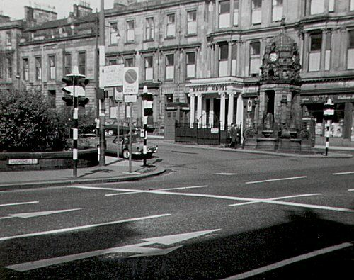 Charing Cross Original description: Charing Cross 1966 Charing Cross, Glasgow in 1966.